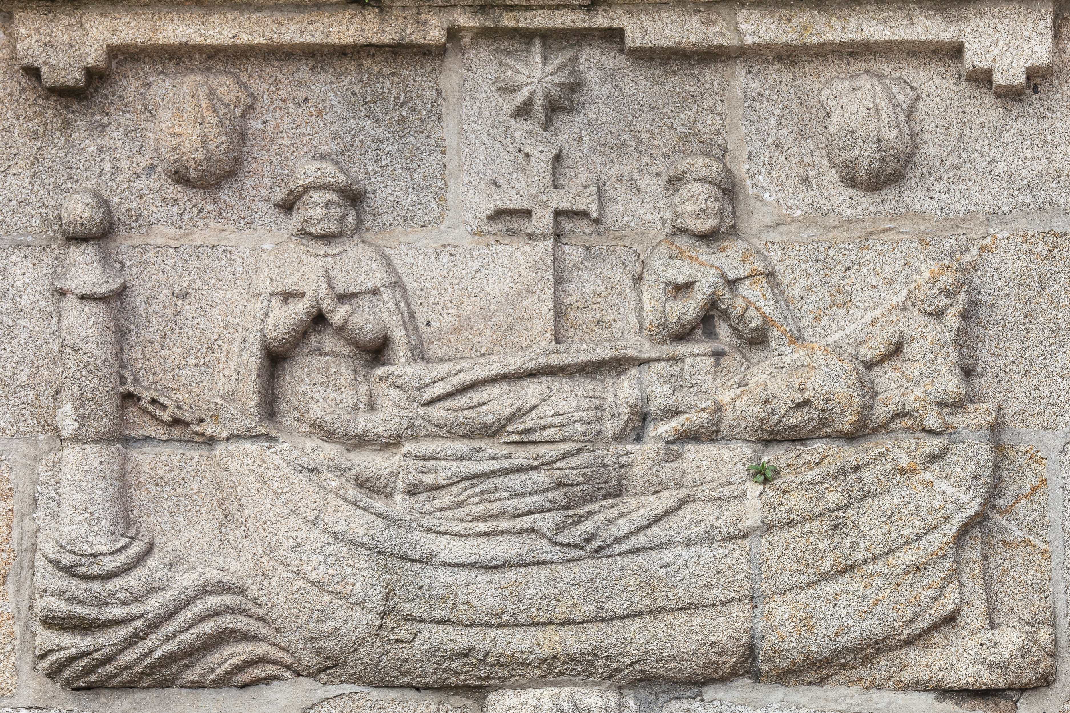 Relief of Santiago apostle. Fountain of O Carme bridge, Padrón, Galicia (Spain)